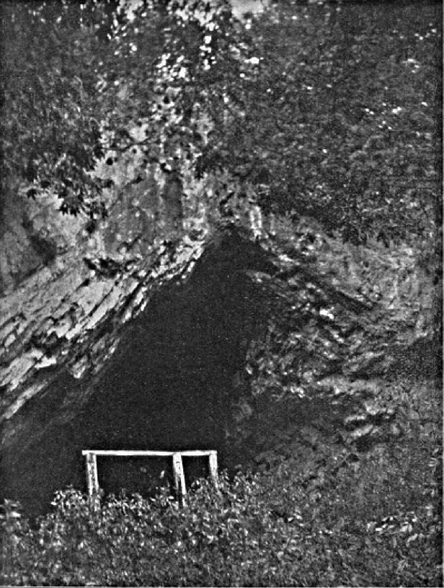 Istállós-kő Cave entrance.